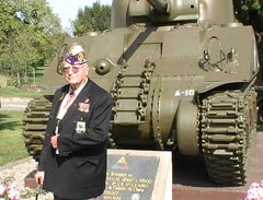 Col. Jimmie Leach at Arracourt, France, Sept 2009